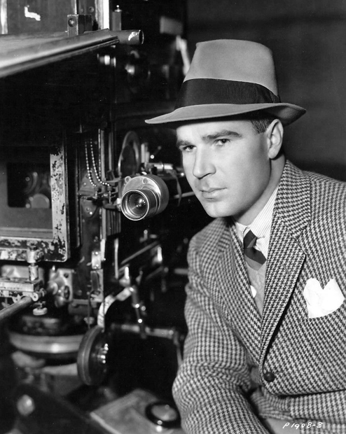 cinematographer Charles Lang - publicity still